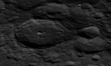 Oblique view of Olcott (crater), on the far side of the moon. Facing east (north is at left). Olcott L is the smaller crater to the right. A photographic blemish on the original (white dot) was edited out.